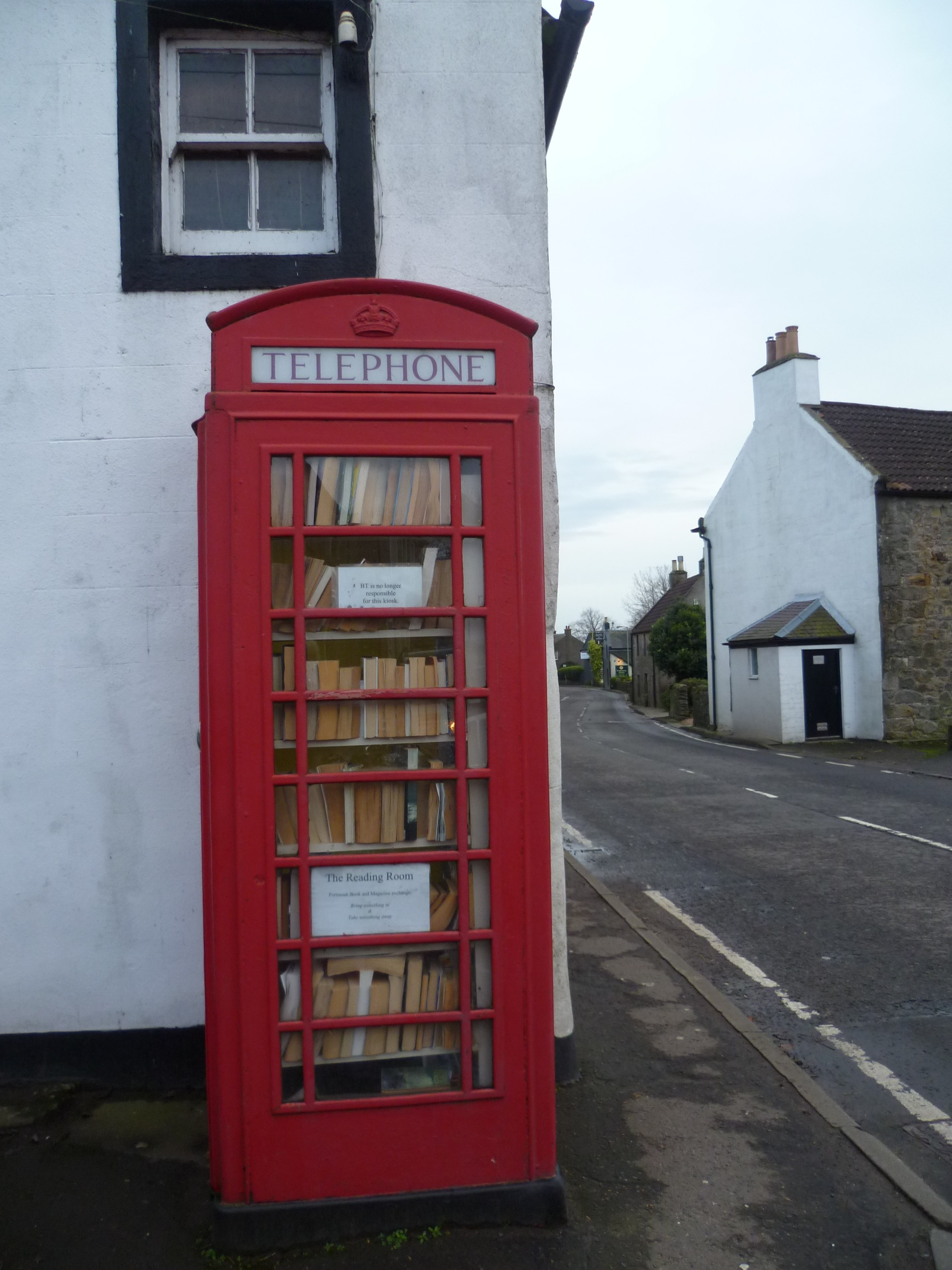 Is this disused telephone box Britain's smallest public library? Villagers are invited to "Bring something in & take something away. "